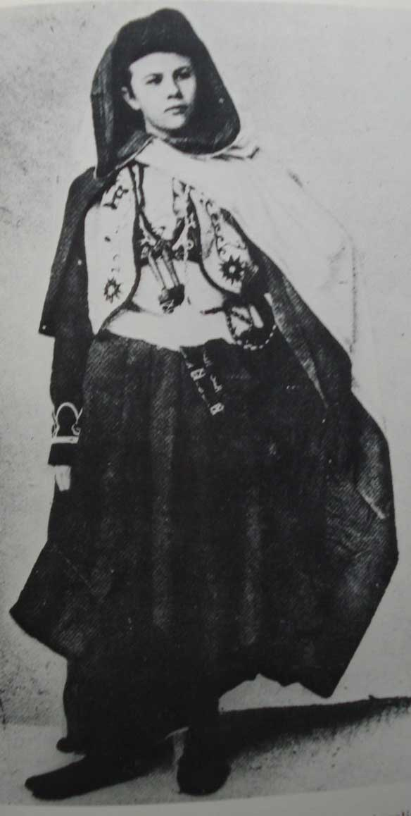 Isabelle Eberhardt as photographed by Louis David in 1895